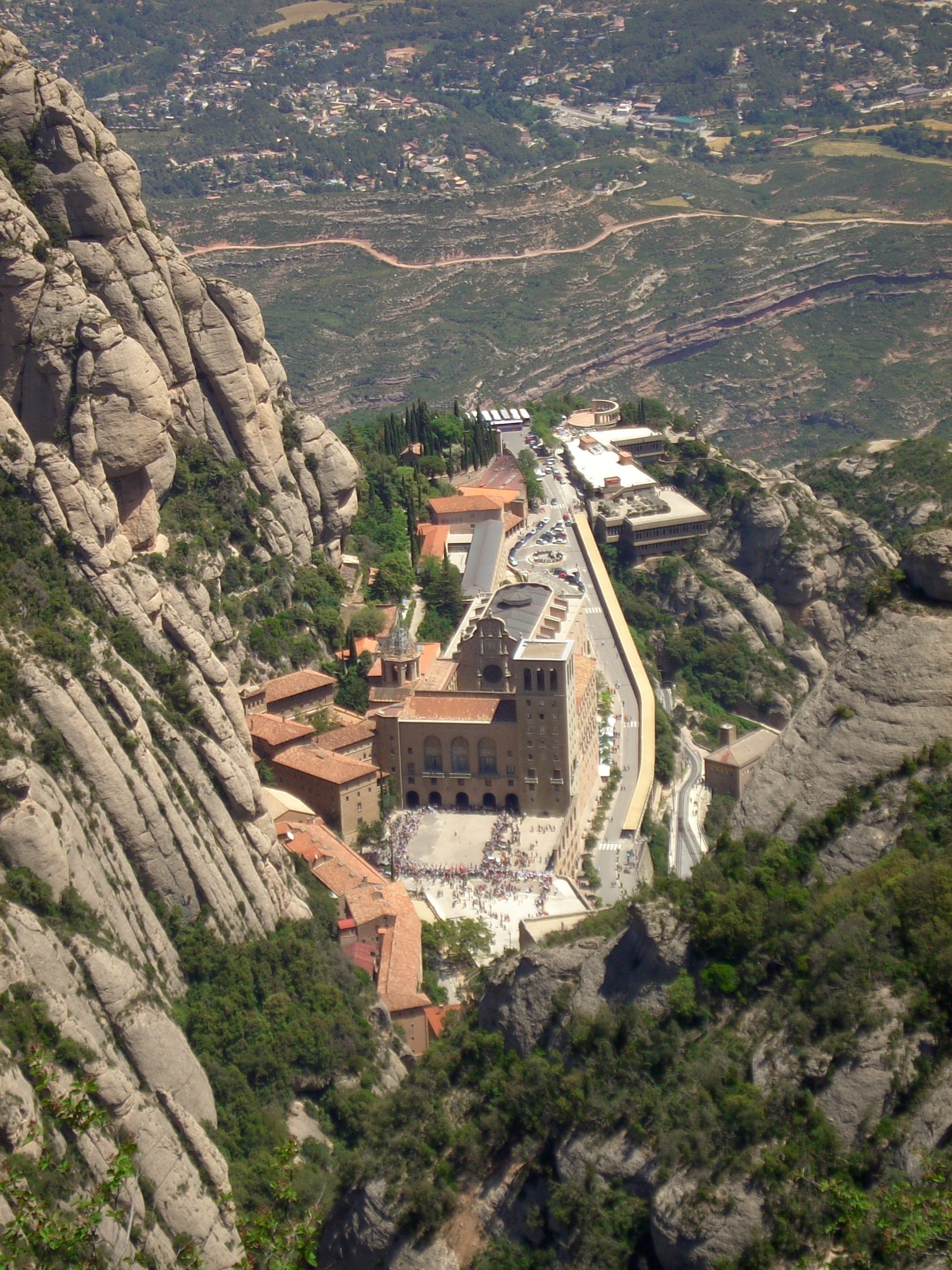 The Monestry of Montserrat, taken from the mountain.